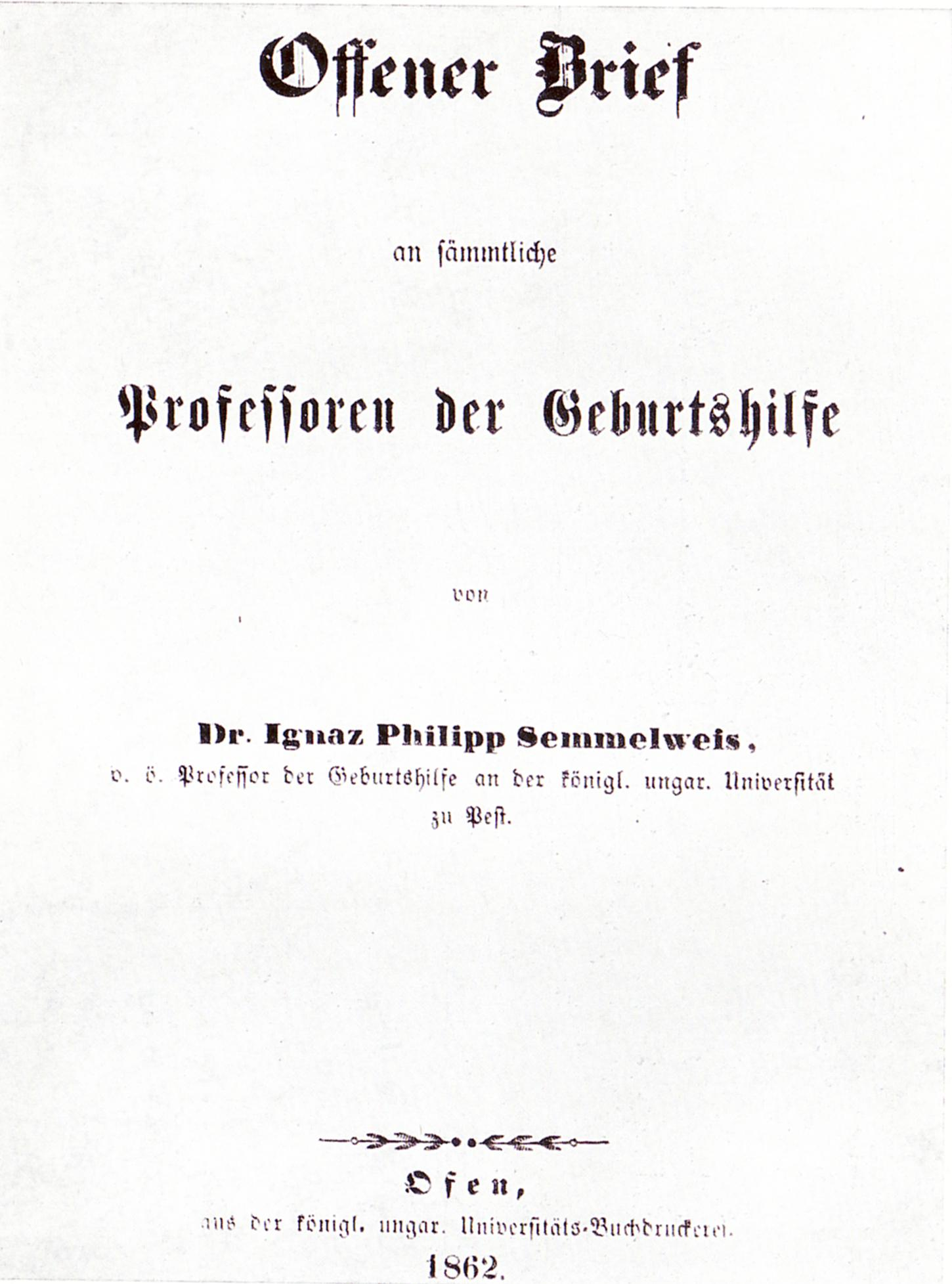 Front page of Semmelweis' Open Letter to all professors of obstetrics 1862